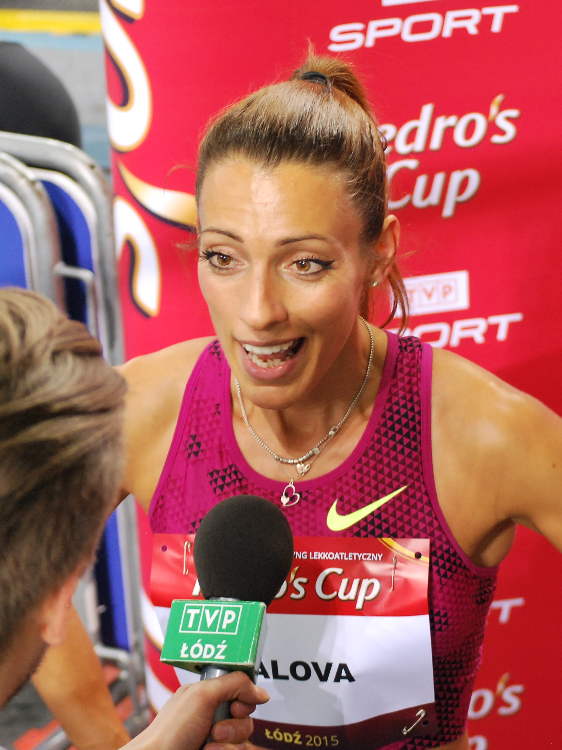 Pedros Cup 2015 Łódź, Ivet Lalova, sprinter from Bulgaria